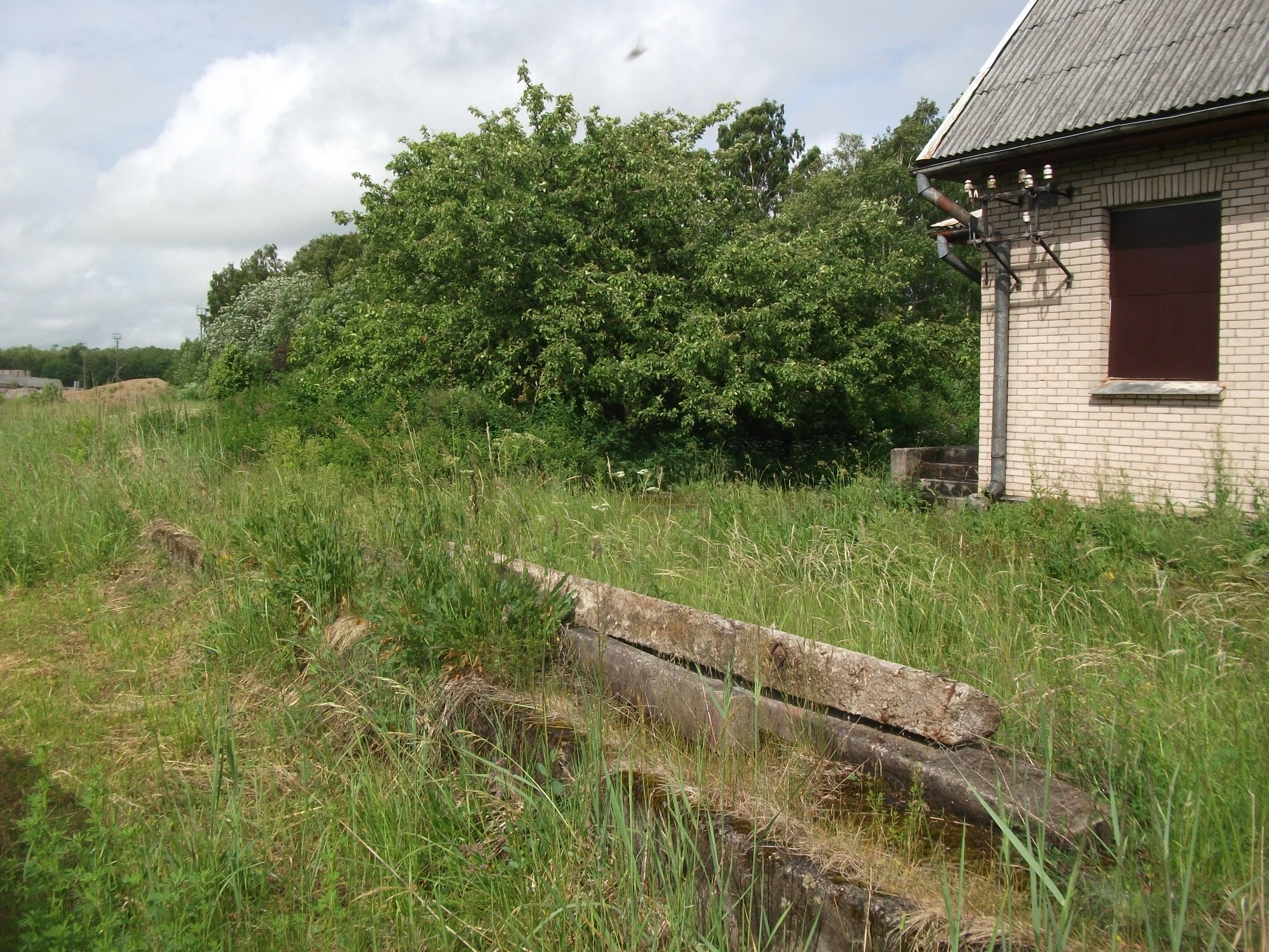 Kapsēdes stacijas platforma, skats Ventspils virzienā